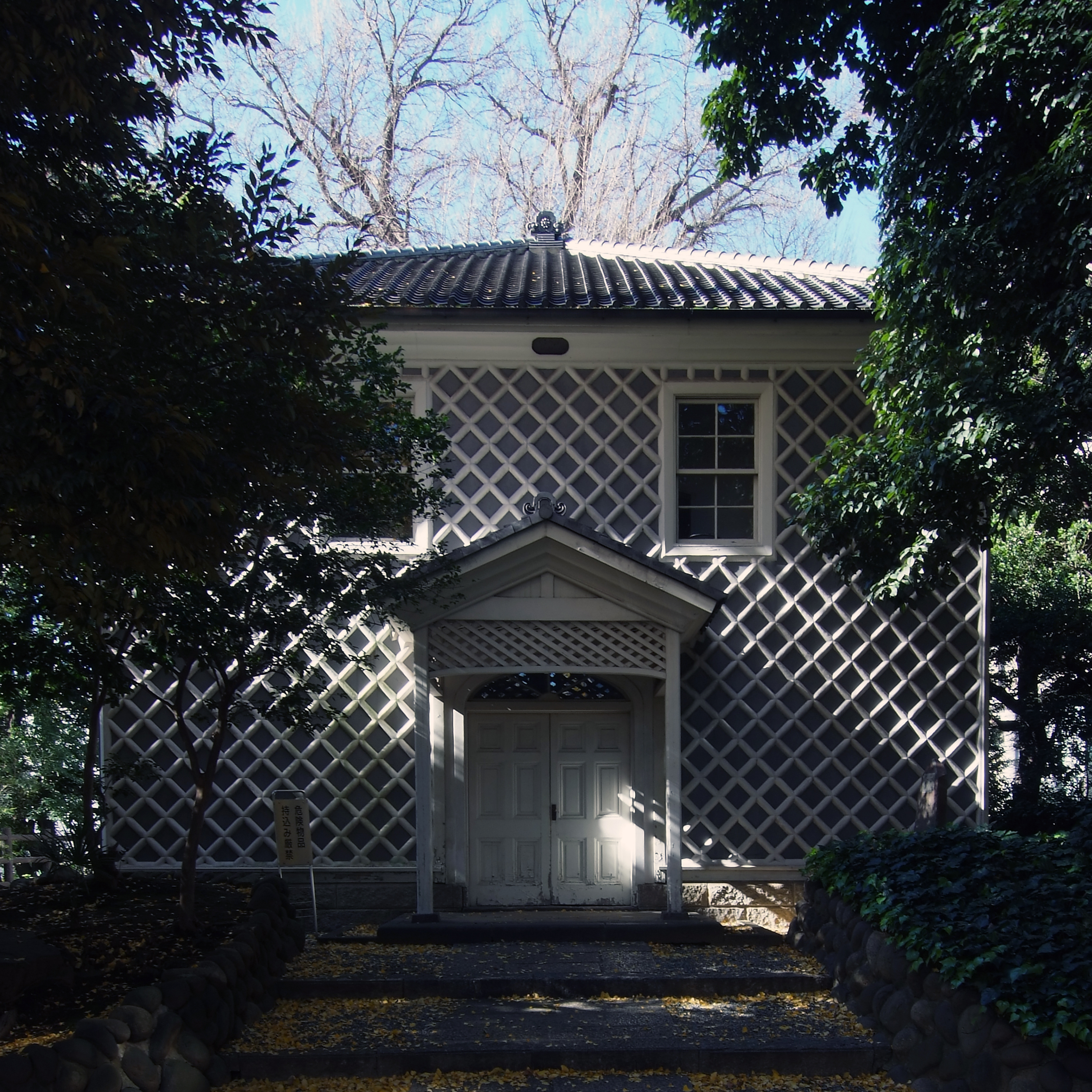 Mita Enzetsu-kan is a Public Speaking Hall in Keio University at Mita Tokyo Japan. Built in 1875. First Public Speaking Hall in Japan.